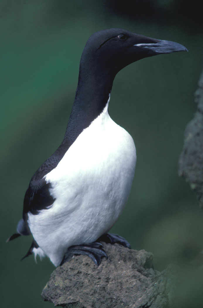 Thick-billed Murre (Uria lomvia), St Paul Island 1986